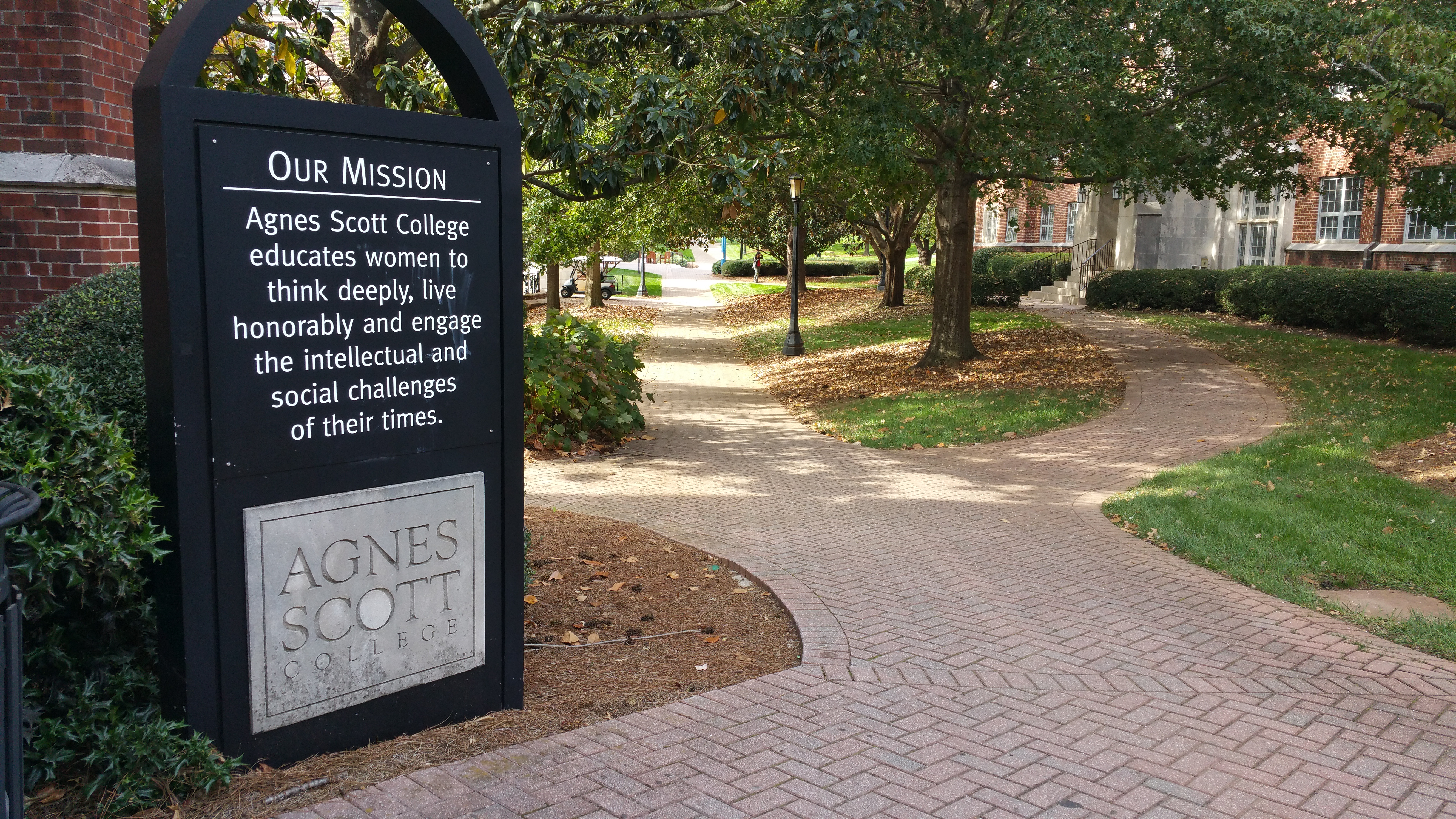 Sign on Agnes Scott Campus with the college's mission statement. Taken November 9th, 2016 with Samsung Note 4 phone.